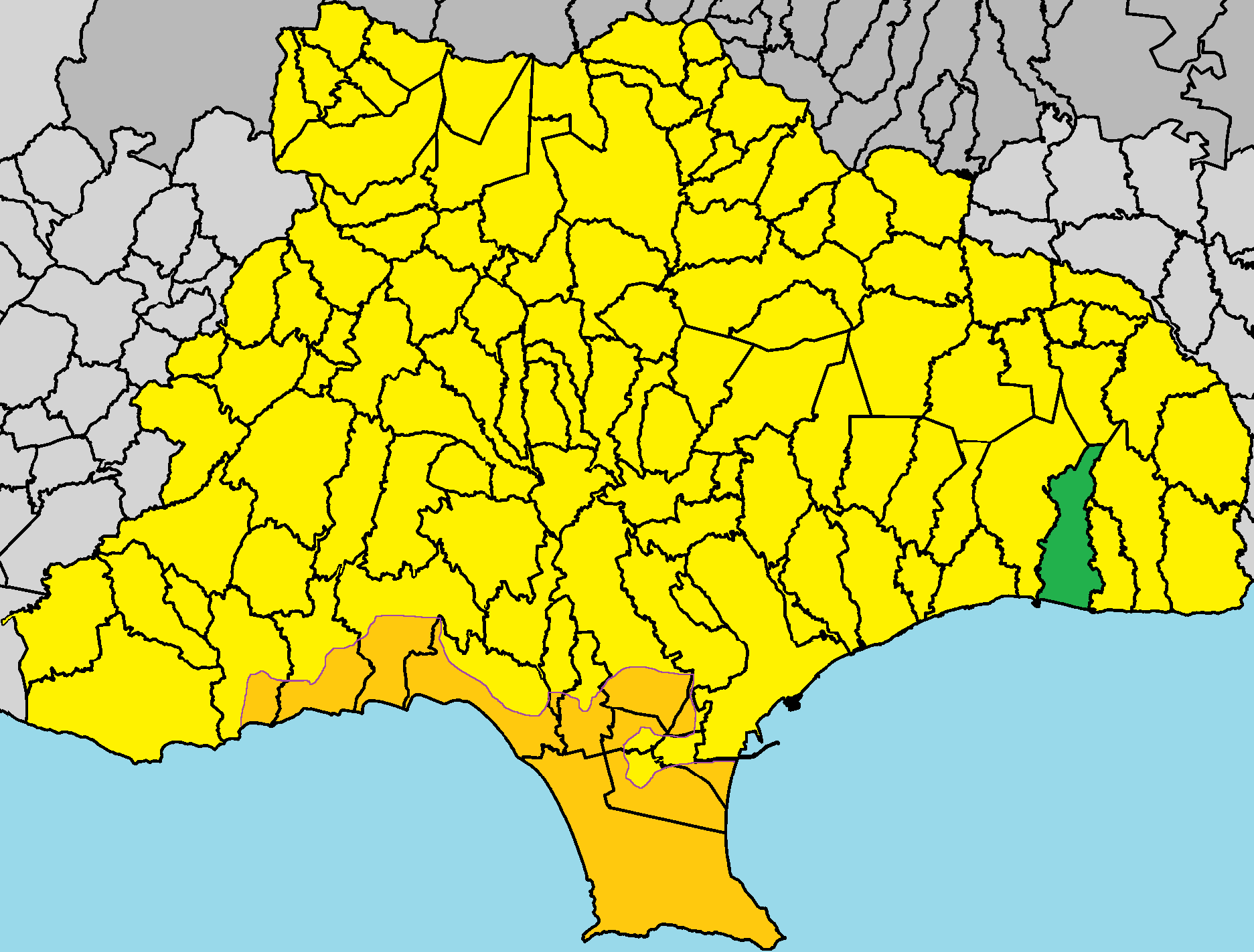 Pyrgos, Limassol in Limassol District.